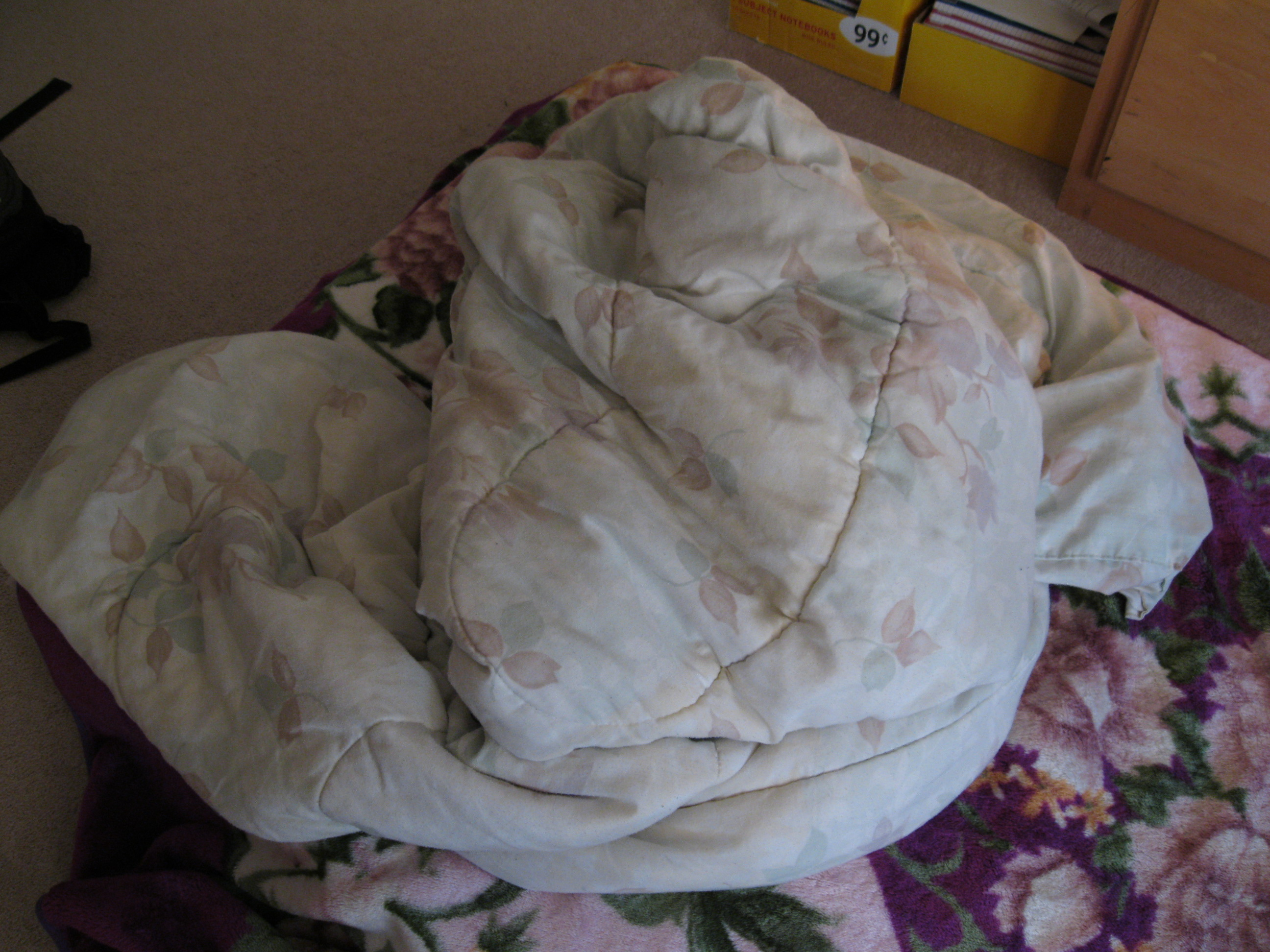 A blanket.